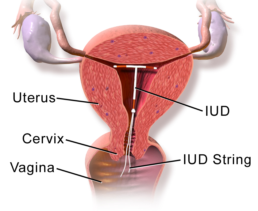 Intrauterine Device (IUD). See a full animation of this medical topic.